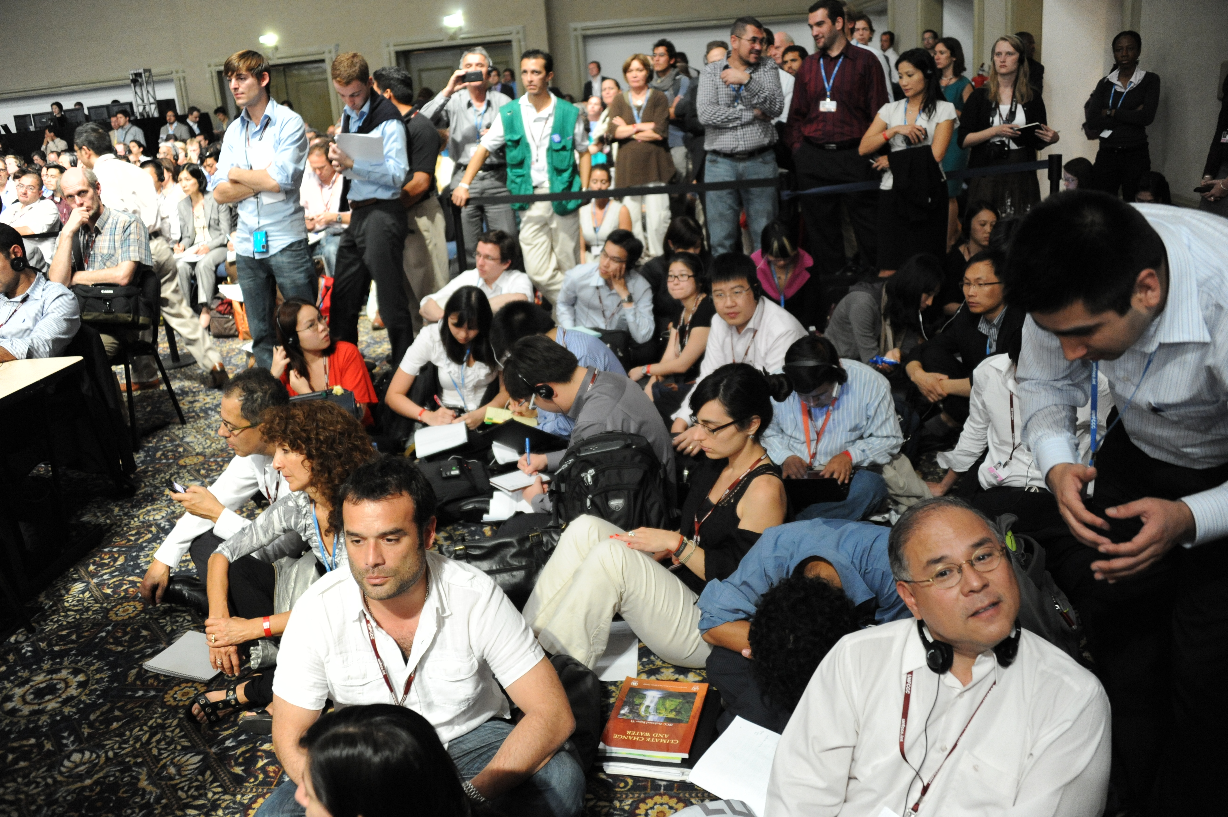 UN Climate Talks 2010. Cancun, Mexico. by United Nations